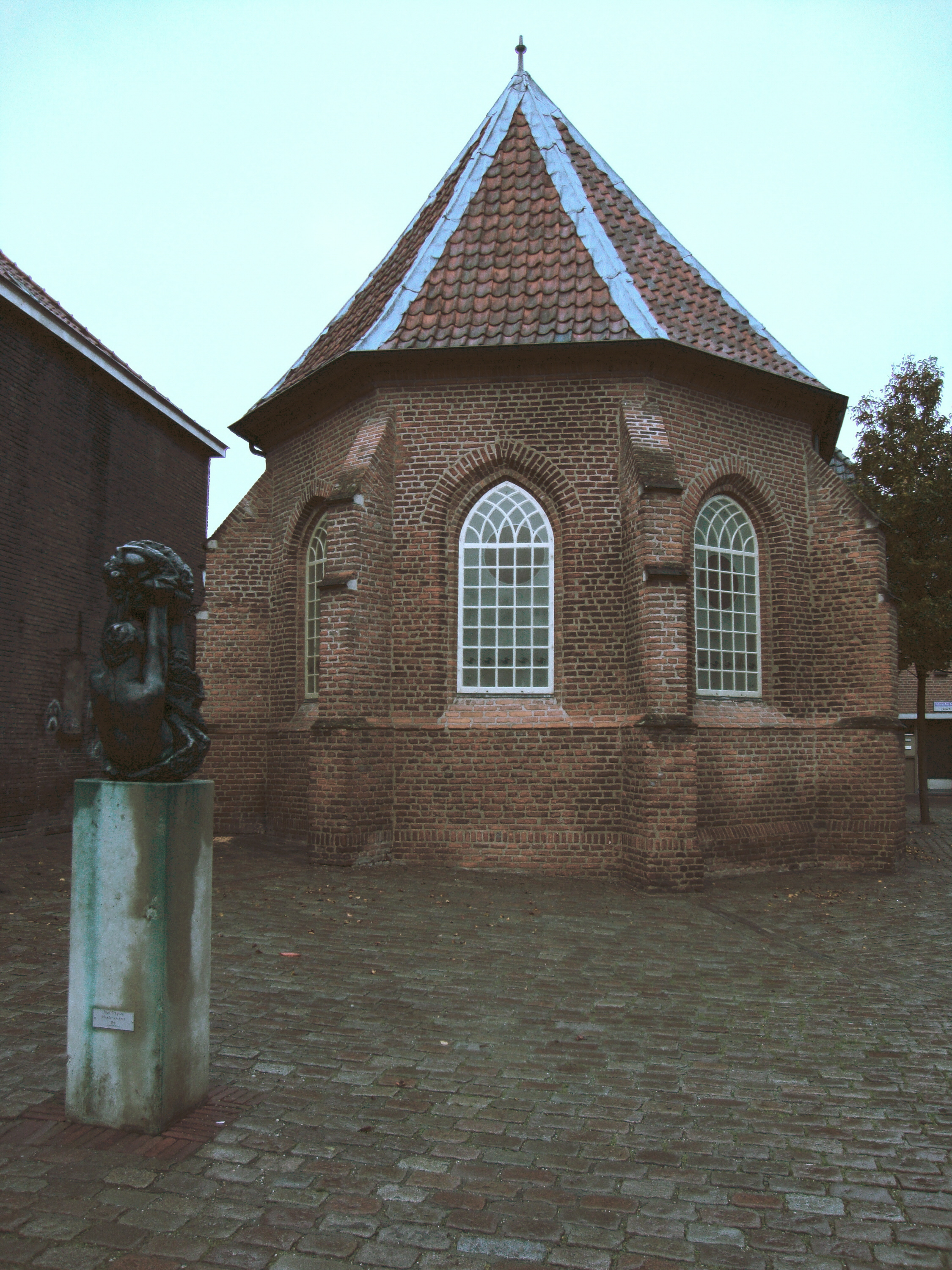 Saint James Chapel, 1440, Nijmegen NL